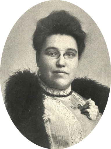 Ana de Castro Osório